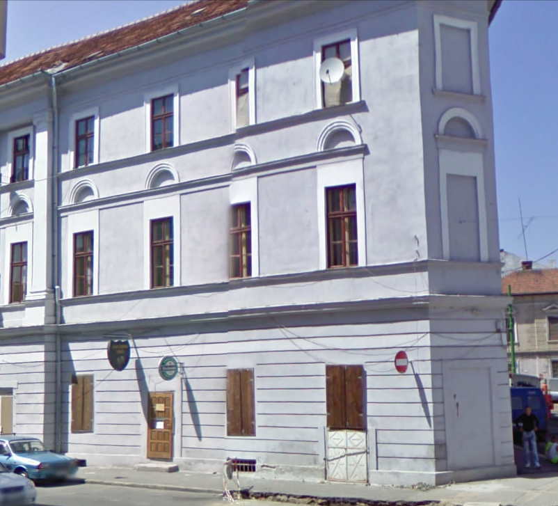 arad